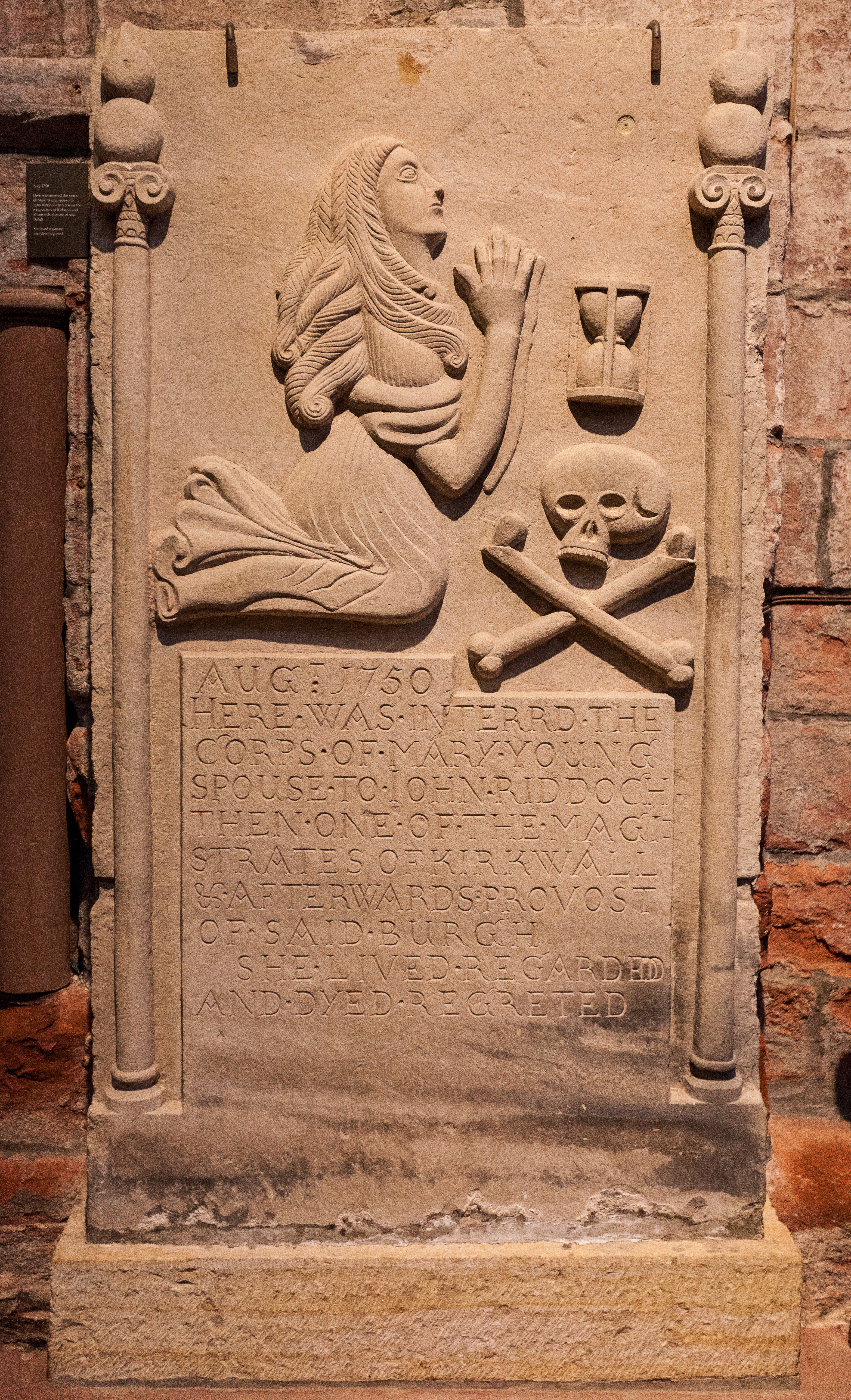 Mary Young monument, St Magnus Cathedral, Kirkwall, Orkney "Aug.t 1750 / Here was interred the corps of Mary Young spouse to John Riddoch then one of the Magistrates of Kirkwall & afterwards Provost of said Burgh / She lived regarded and dyed regreted" Wikidata has entry Q732112 with data related to this item.